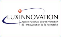 Luxinnovation's logo. Luxinnovation is the national agency of Luxembourg responsible for the national space programme (equivalent to other space agencies like NASA, ESA, UKSA, DLR, CNES, ASI etc). It carries out research programmes from other scientific fields as well (like ecothechnologies, materials, information technology etc).